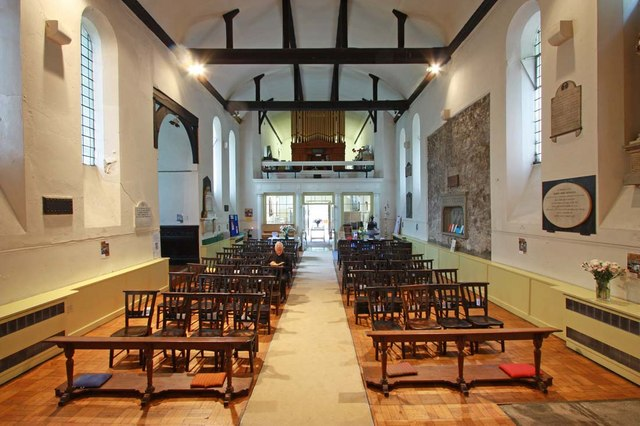 St Pancras (Old Church), London NW1 - West end